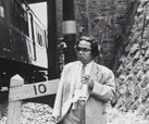 Seichō Matsumoto who investigates the Shimoyama incident